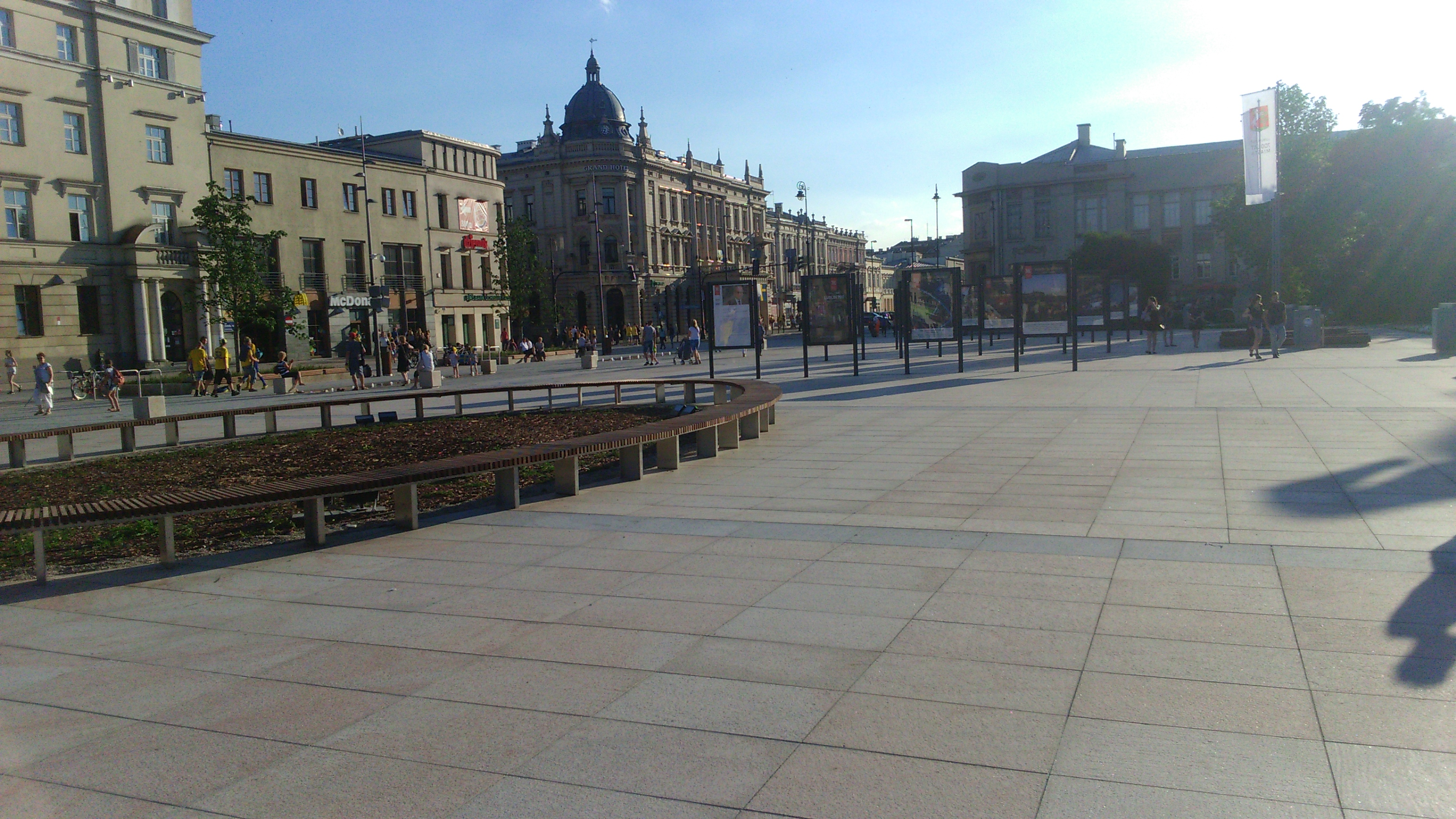 Plac Litewski